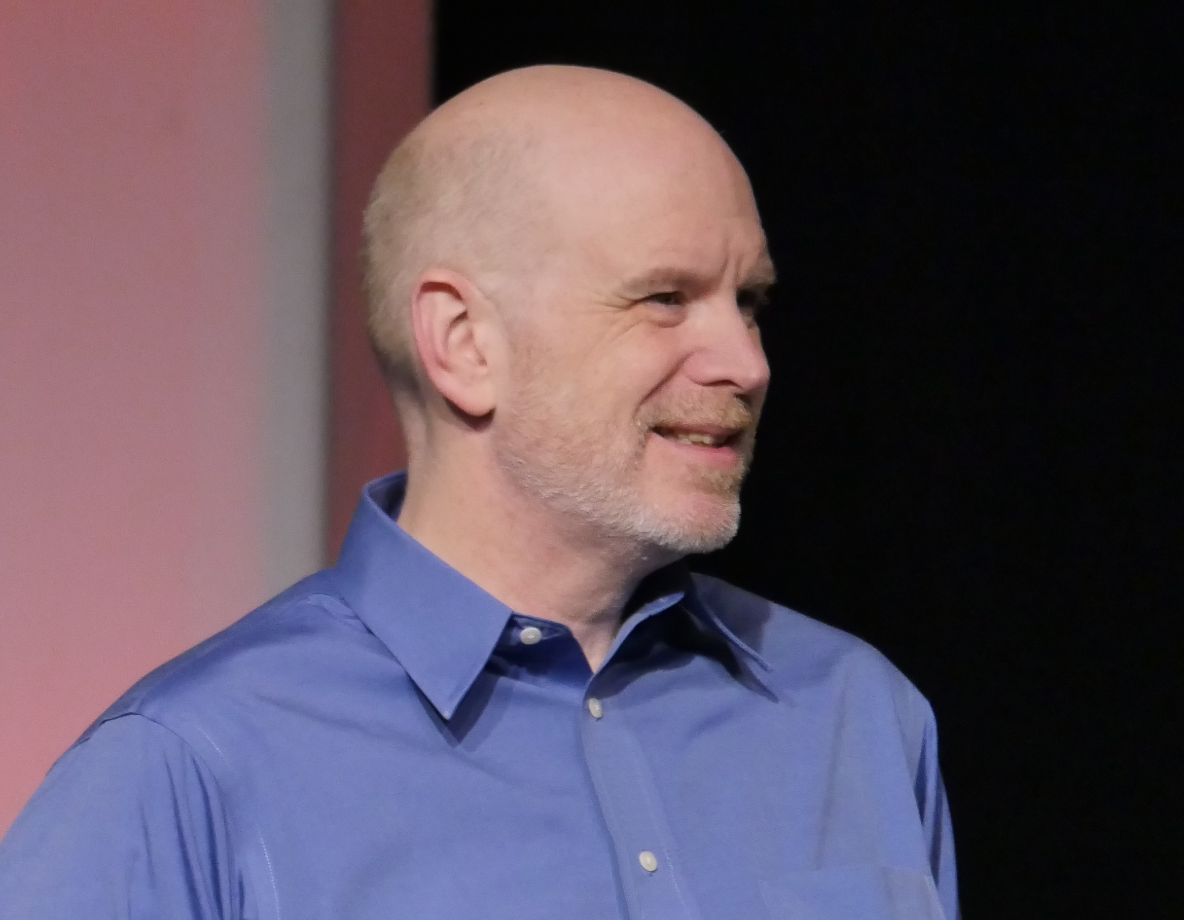 Stephen Macknik CSICon 2018 Champions of Illusion - Super Crop